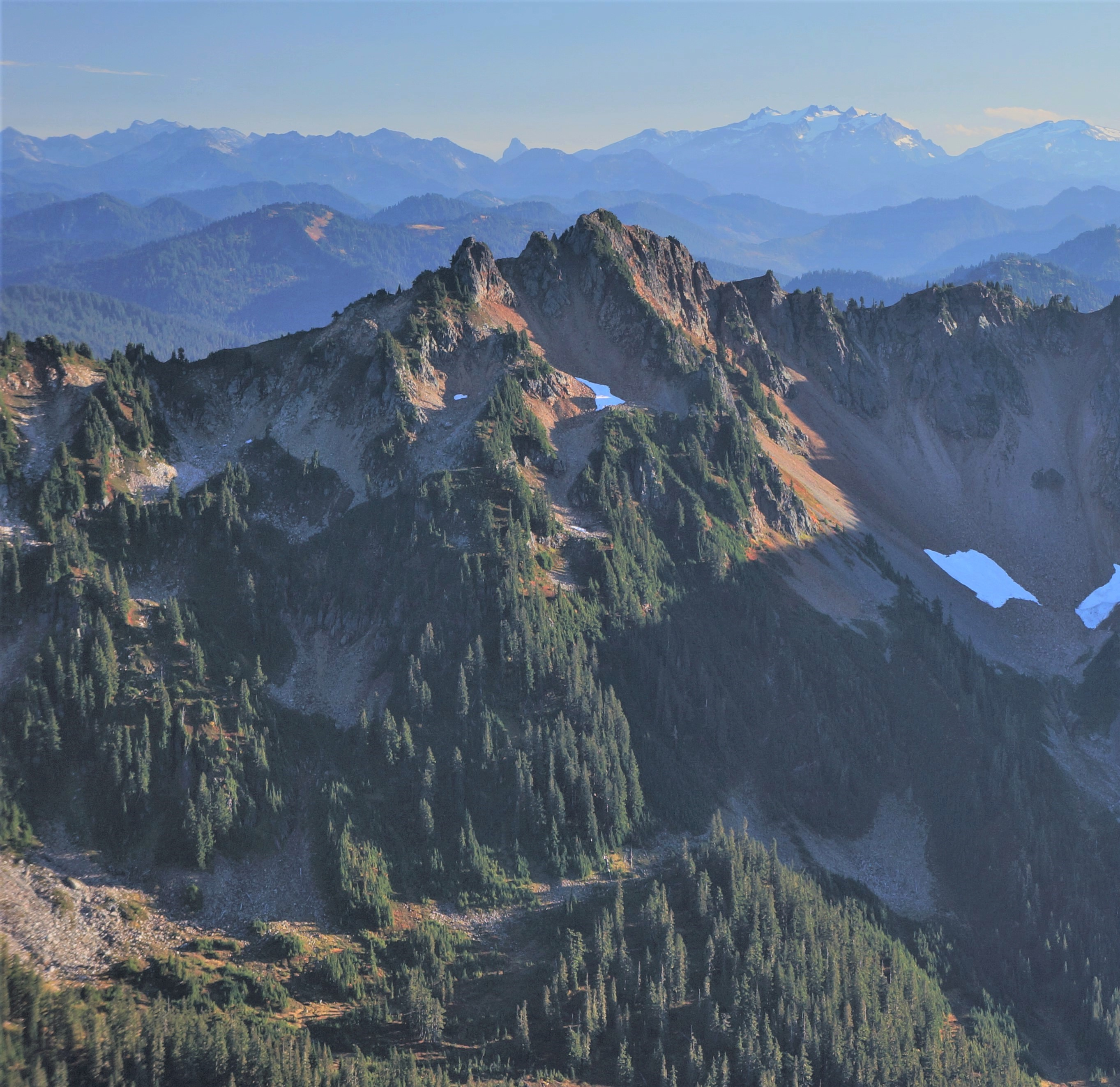 Skykomish Peak, with the Alpine Lakes Wilderness in the background